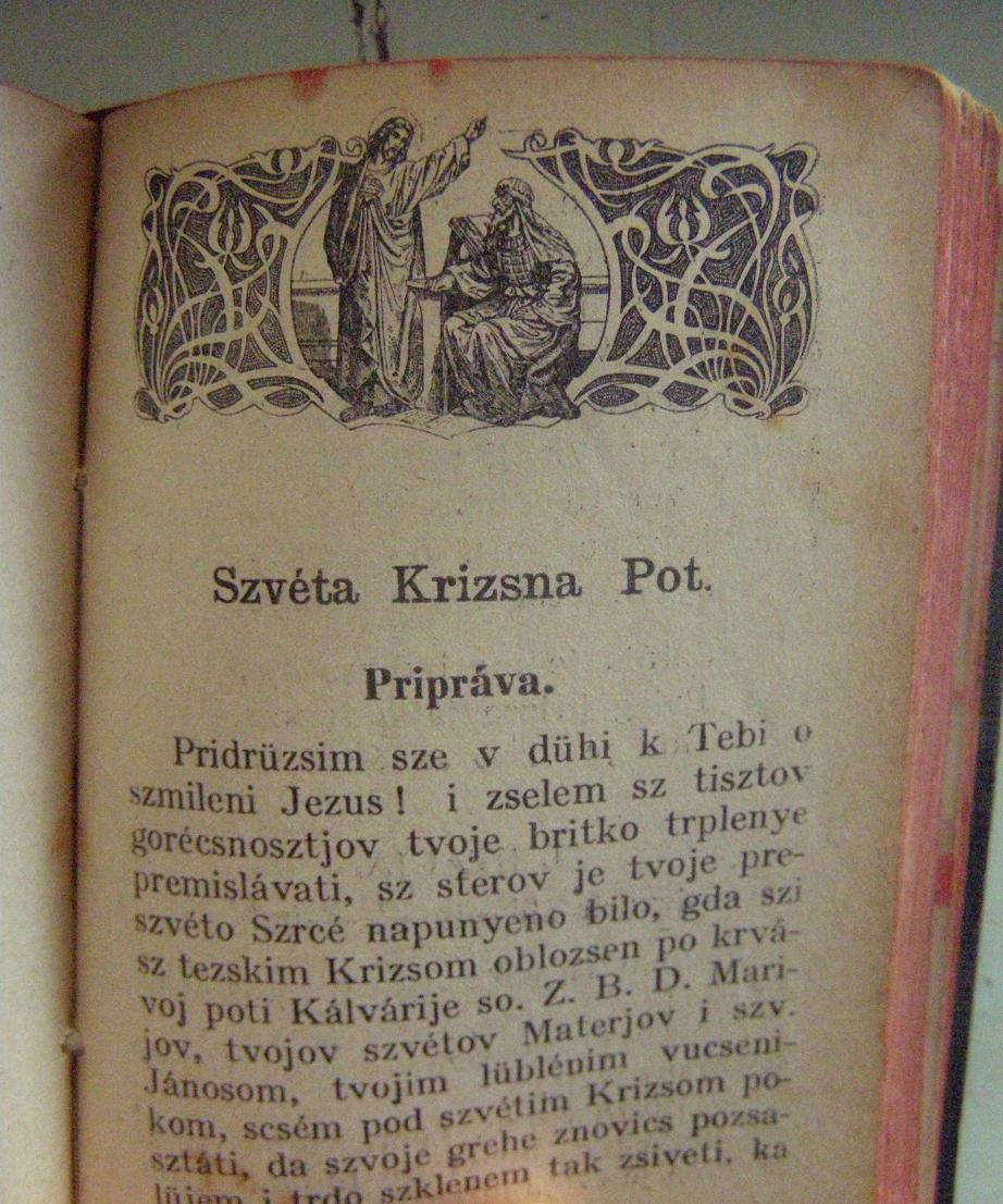 The Station of the Holy Cross (Szvéta krizsna pot), by József Szakovics (Molitvena kniga, 1942)